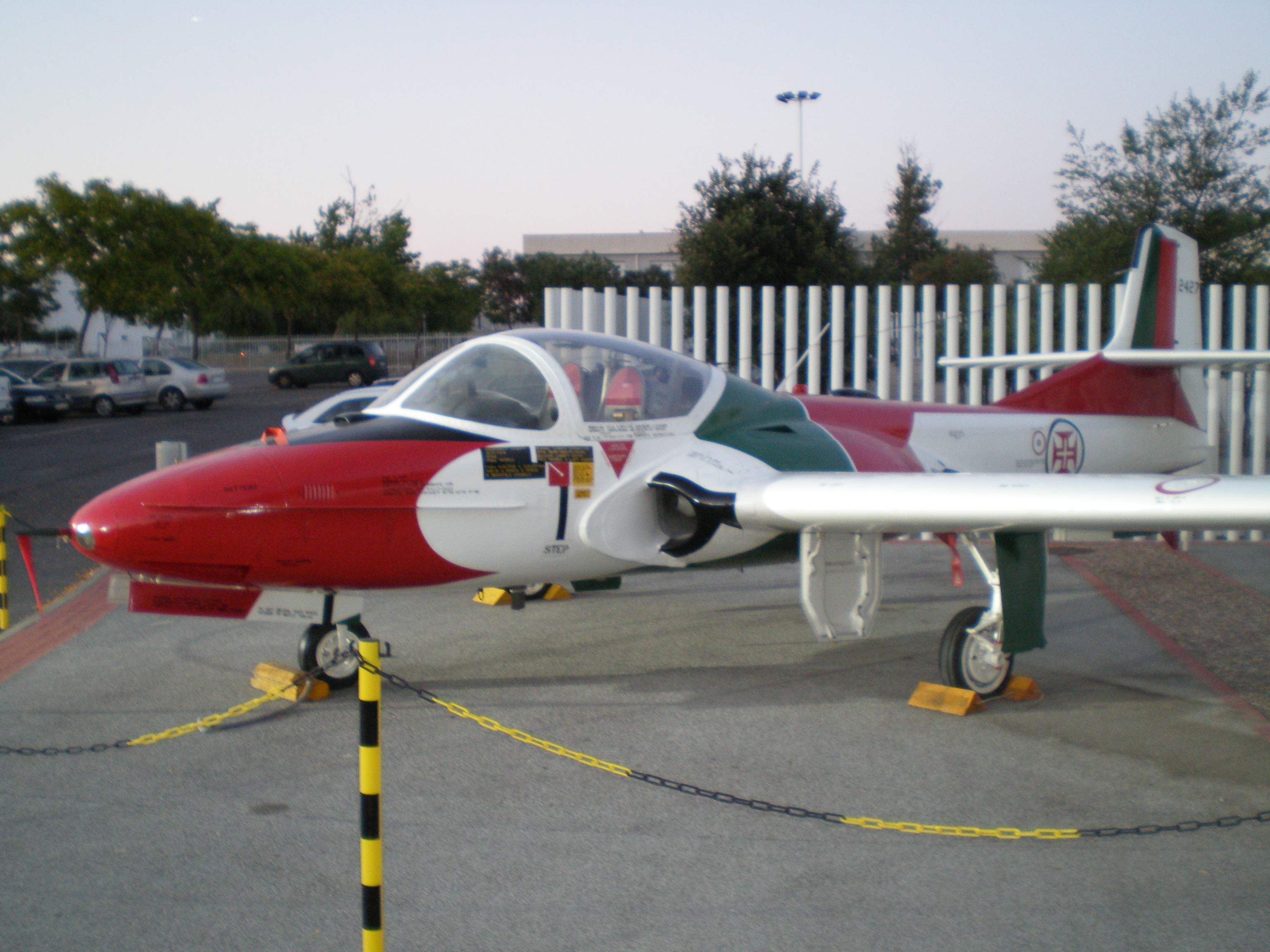 Cessna T-37C of the Portuguese Air Force (FAP), deactivated in 1992 this aircraft was formerly of the "Wings of Portugal" (Asas de Portugal) aerobatic display team. It is seen here on the 55 th anniversary of the FAP held in the park, fairs and exhibitions of Beja.